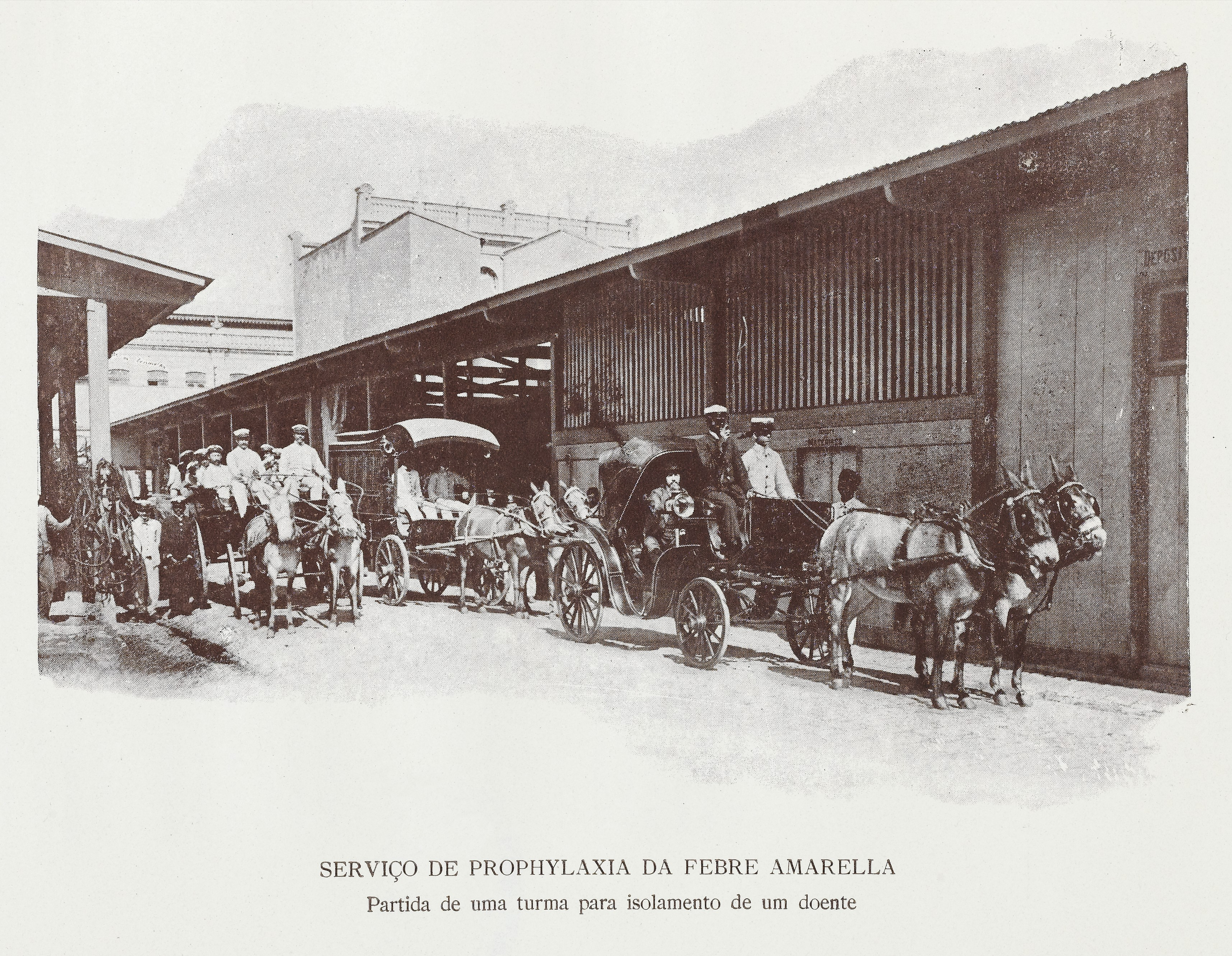 Horses and carriages, Yellow Fever prophylaxis team General Collections Keywords: Oswaldo Cruz; Public Health; Yellow Fever; Oswald Cruz